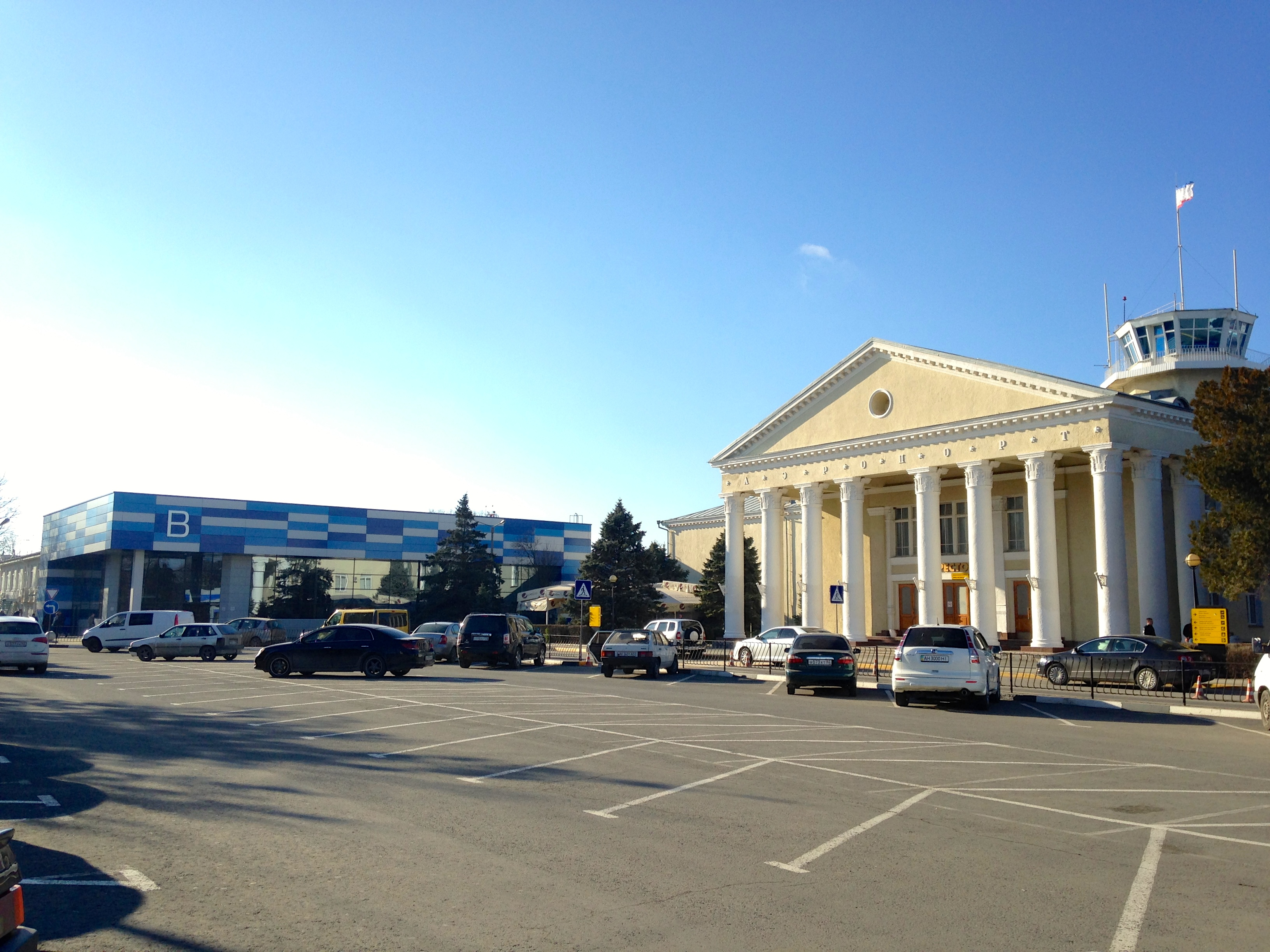 Terminal B in Simferopol International Airport, administrative building and parking. December 1025